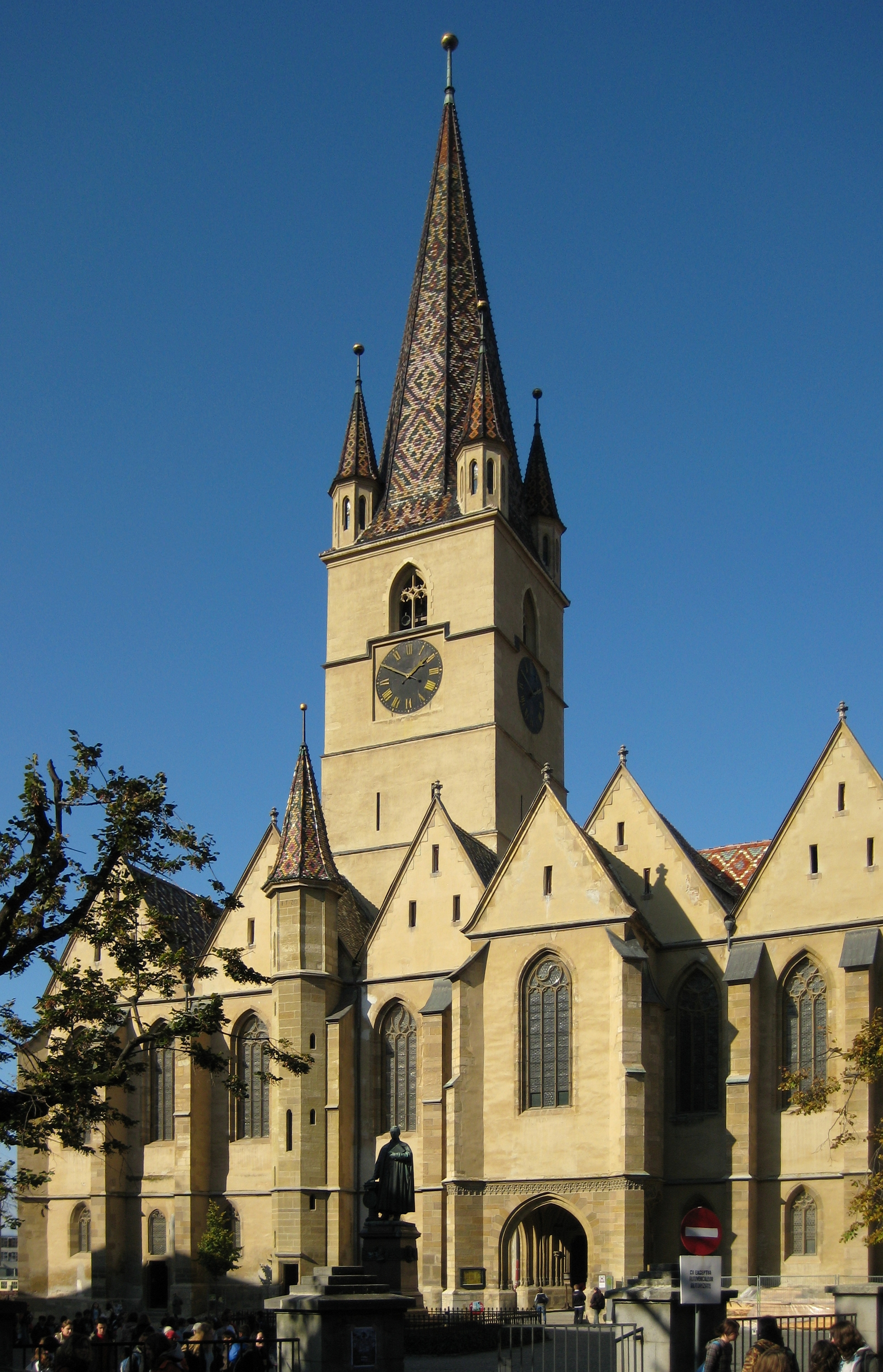 Protestant Church in Hermannstadt/Sibiu, Romania